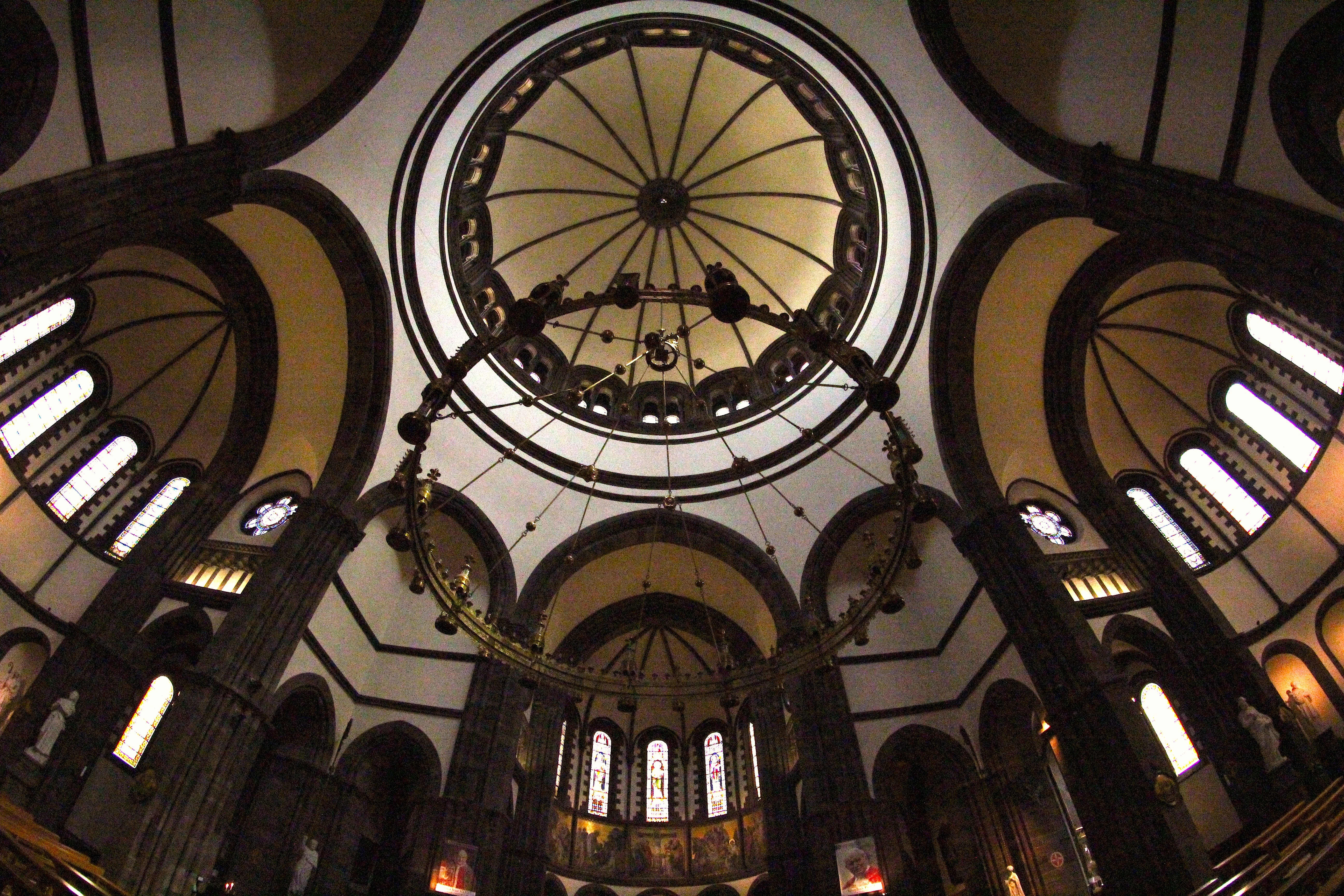 Vaults and dome of Église Saint-Pierre-le-Jeune catholique, Strasbourg, seen in 2014.